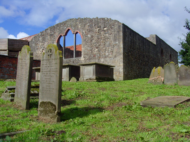 St Mary Magdalene and St Helena Church, Nunkeeling in the East Riding of Yorkshire, England.Looking southwest towards the ruin of St Mary Magdalene and St Helena Church. The church was given to the Benedictine priory founded here in 1150. After the dissolution, it remained the parish church but fell into disrepair. In 1810 the present structure was rebuilt using material from the old church. In the 20th century the church became disused and in about 1940 the roof and end gables were removed. The parish council stepped in to prevent its demolition in 1985 and now maintains it.